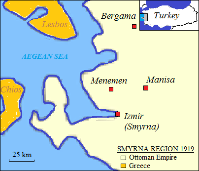 Smyrna (Izmir, Turkey) region in 1919 with locations of some cities.